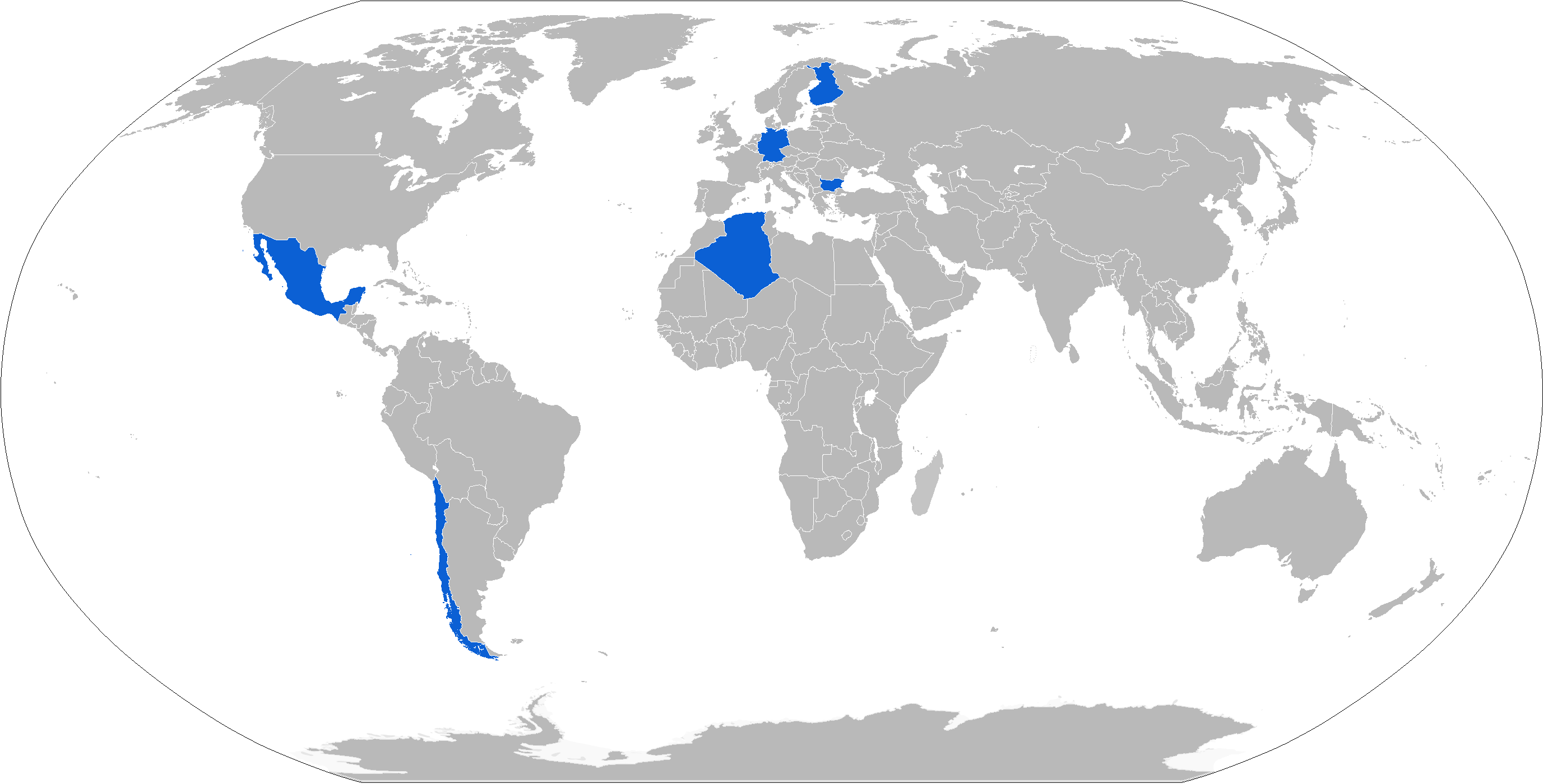 Map with Zetros operators in blue